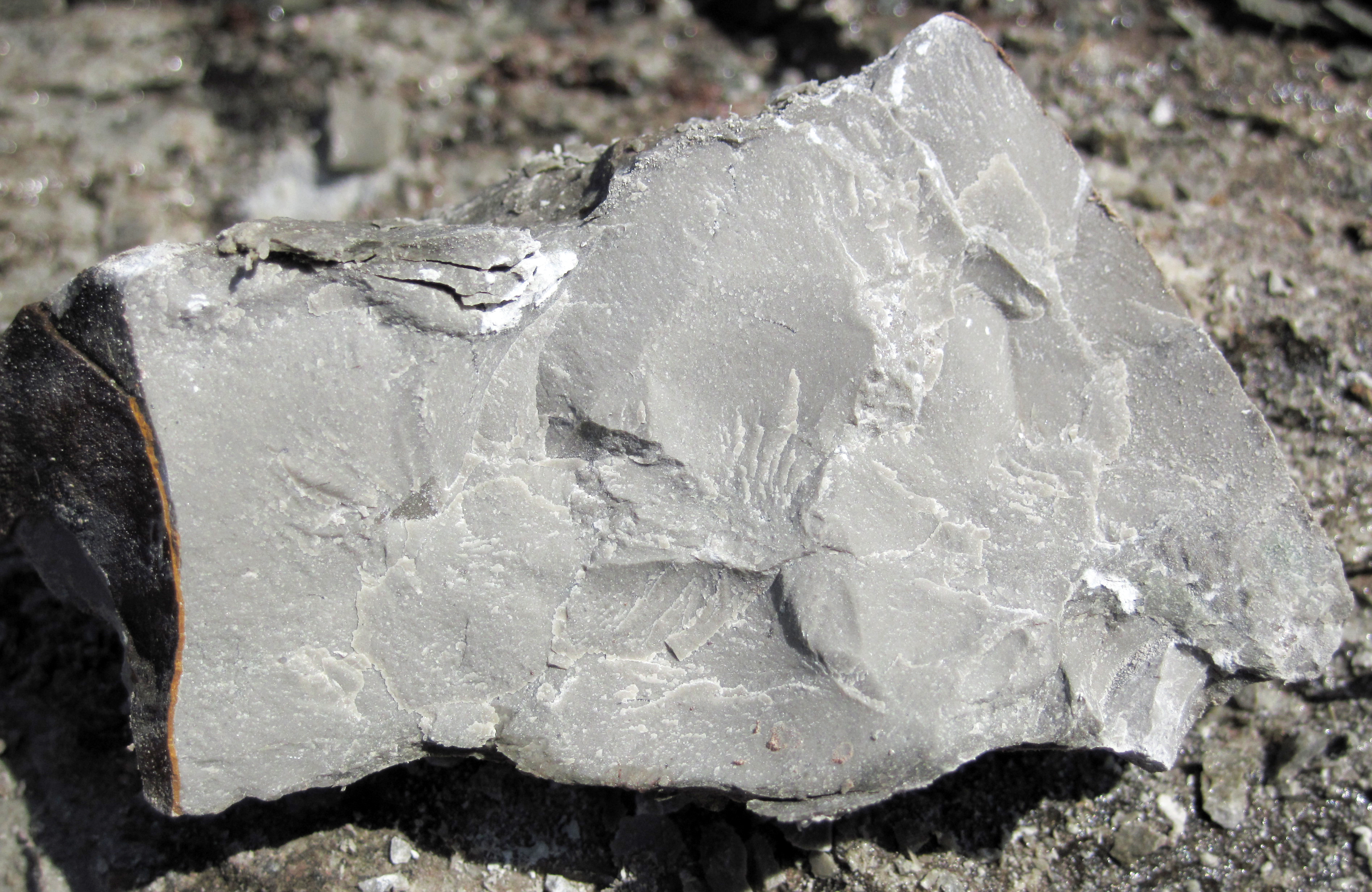 Micritic limestone in the Mississippian of Kentucky, USA. This is part of the Upper Mississippian Slade Formation in Kentucky. The unit was formerly known as the Newman Limestone ("They always change the names to protect the innocent!"). Slade Formation limestones are shallow ocean deposits. The section shown here has numerous paleosol horizons (= ancient soils). Stratigraphy: Mill Knob Member, Slade Formation, Upper Mississippian Locality: roadcut next to the Clack Mountain Road-Route 519 intersection, south of Morehead, Kentucky, USA (vicinity of 38° 07’ 41.87” North latitude, 83° 24’ 47.04” West longitude)